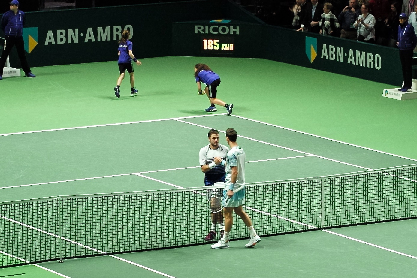 Berdych-Wawrinka final at the ABN AMRO Rotterdam Tennis Tournament 2015.